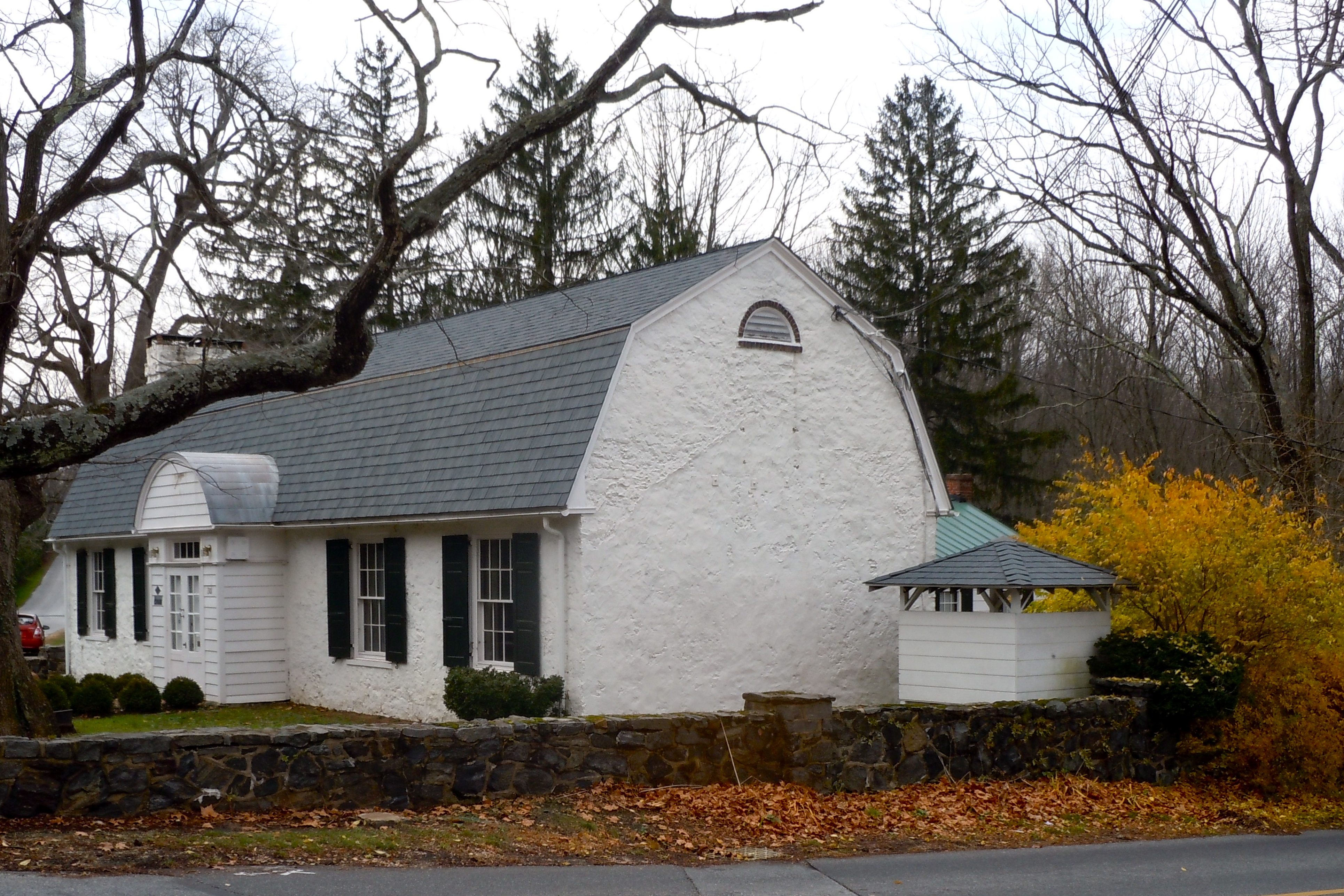 Walnut Green School on the NRHP since August 19, 1994. At the junction of Delaware Route 82 and Owl's Nest Rd. near Greenville, New Castle County, Delaware. Probably built 1830-140, but perhaps as early as 1780-1800.